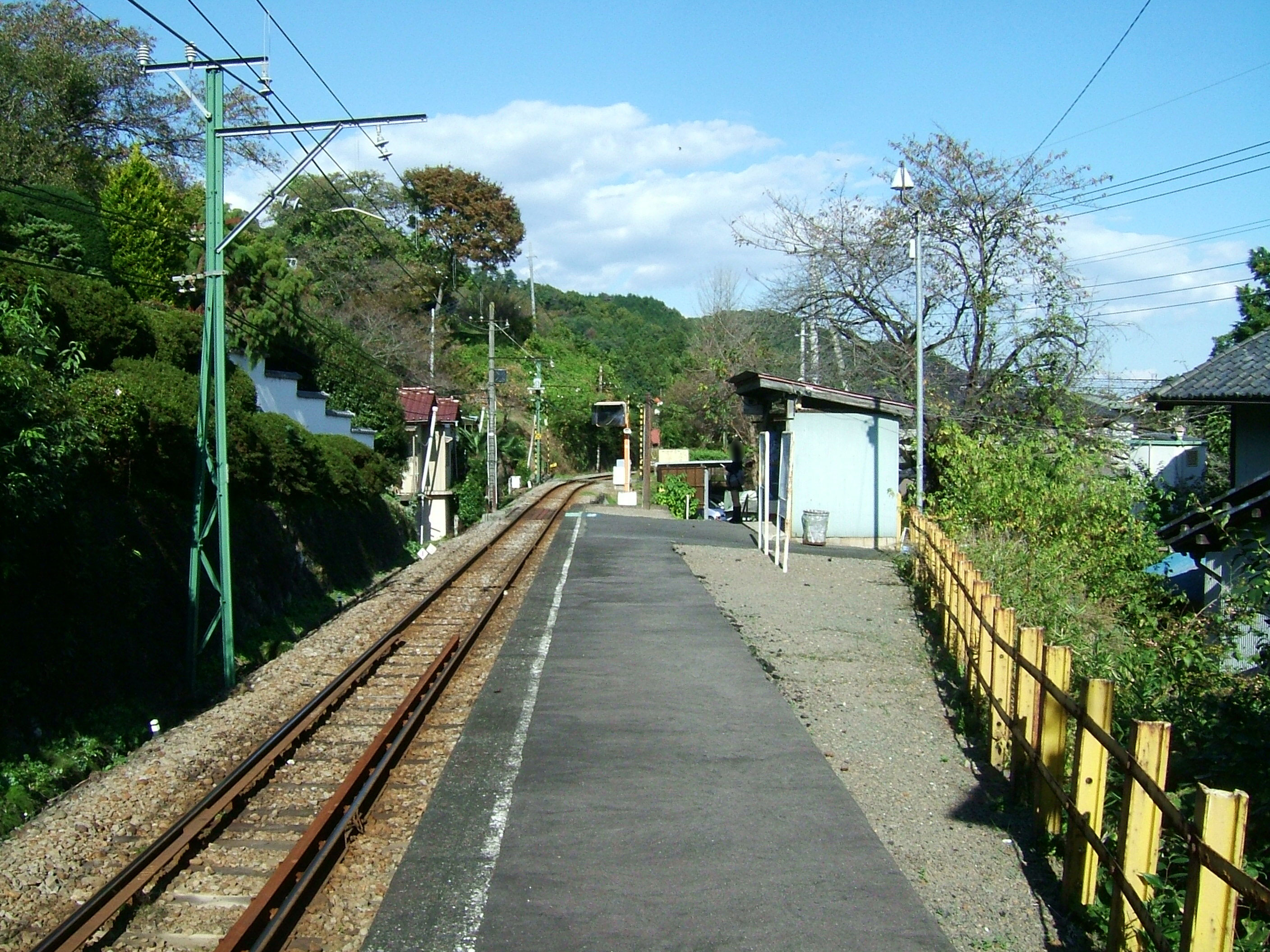 The platform at Sendaira Station on the Jōshin Dentetsu Jōshin Line in Tomioka city, Gunma prefecture, Japan